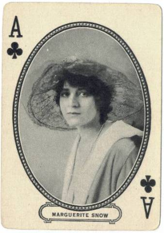 Marguerite Snow